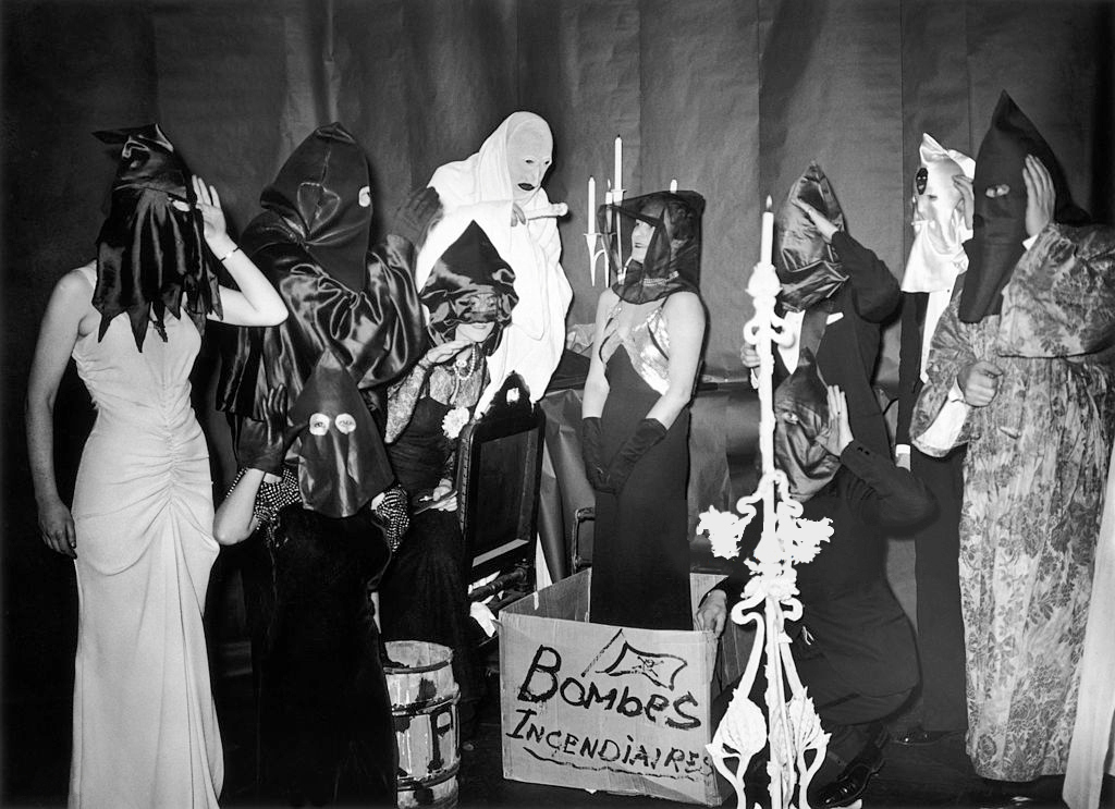 Socialite masquerade of the Cagoule conspiracy : "Parisian Members Of The Cagoule (A Secret Committee For Revolutionary Action) Drinking In Honor Of Their Succesful Conspiracy, Unconcerned About Police Pursuits, On December 3, 1937".